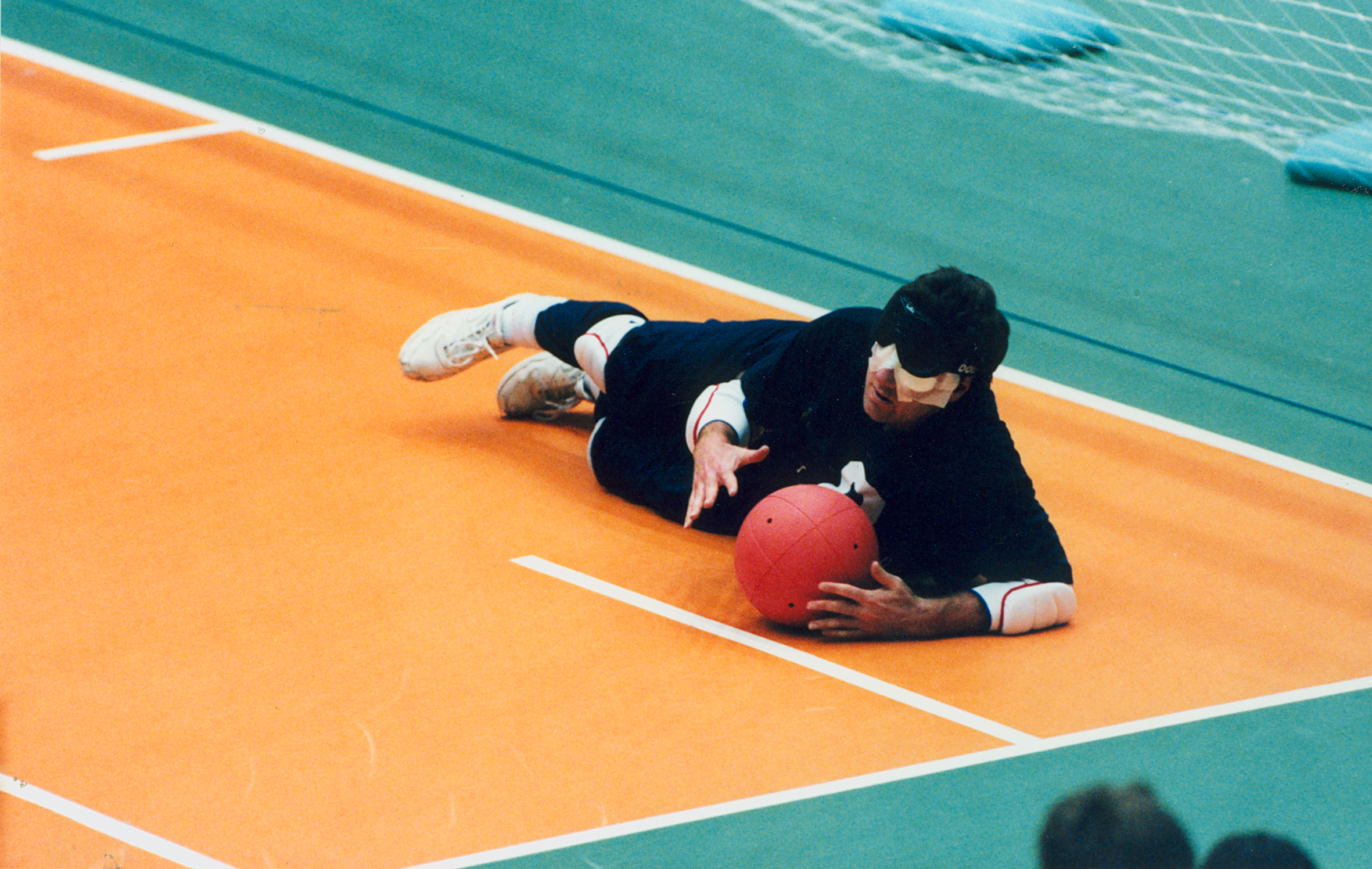 Australian goalballer Rob Crestani makes a save during a game at the Atlanta 1996 Paralympic Games.